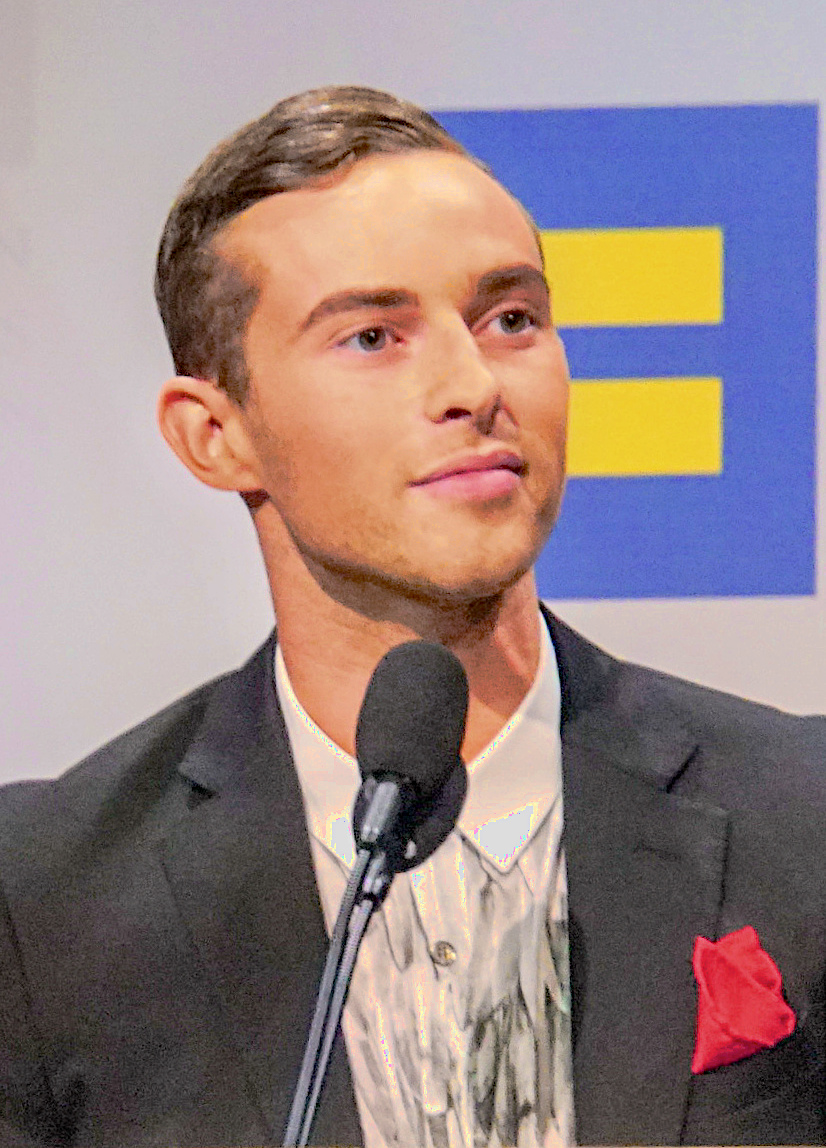 Adam Rippon at the Human Rights Campaign National Dinner, Washington, DC USA, September 15, 2018